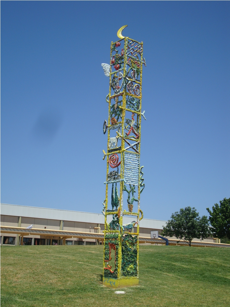 A work by Israeli artist David Gerstein